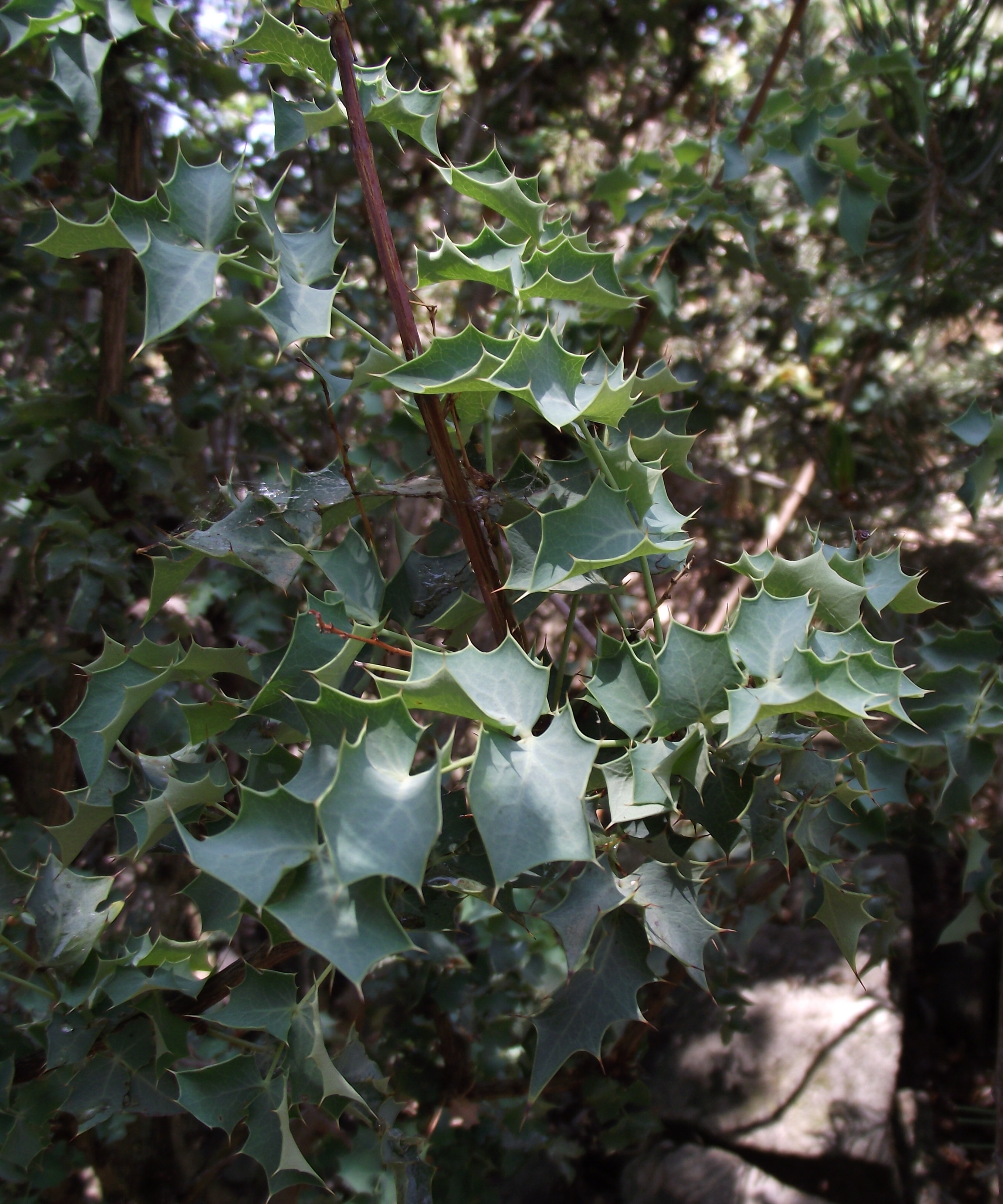 Berberis higginsiae at the San Diego Zoo Safari Park, Escondido, CA, USA. Sometimes considered a synonym of Mahonia fremontii. FNA says it is a species.